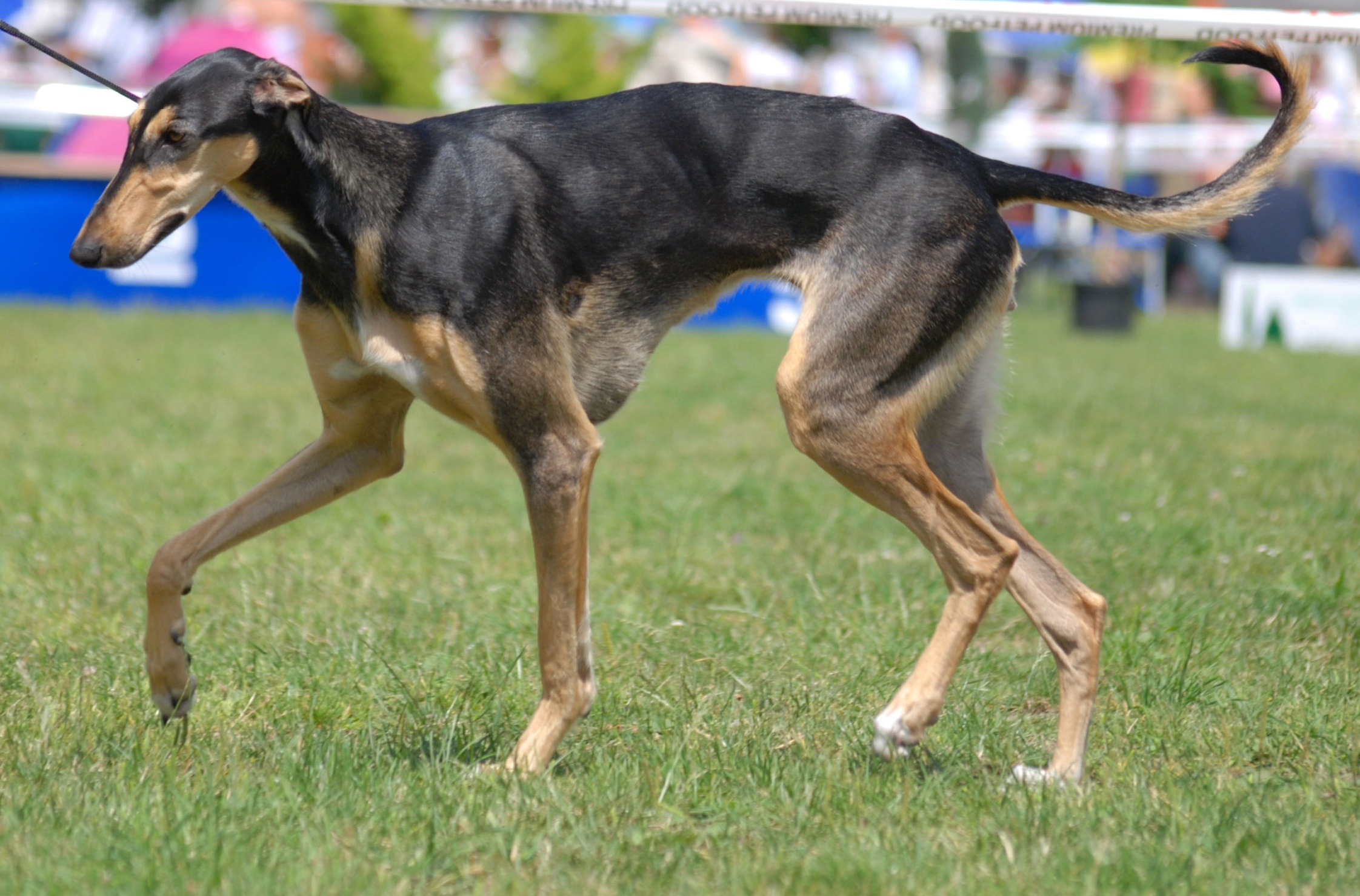 Chart Polski XXXIII dogs show in Ustroń, Poland